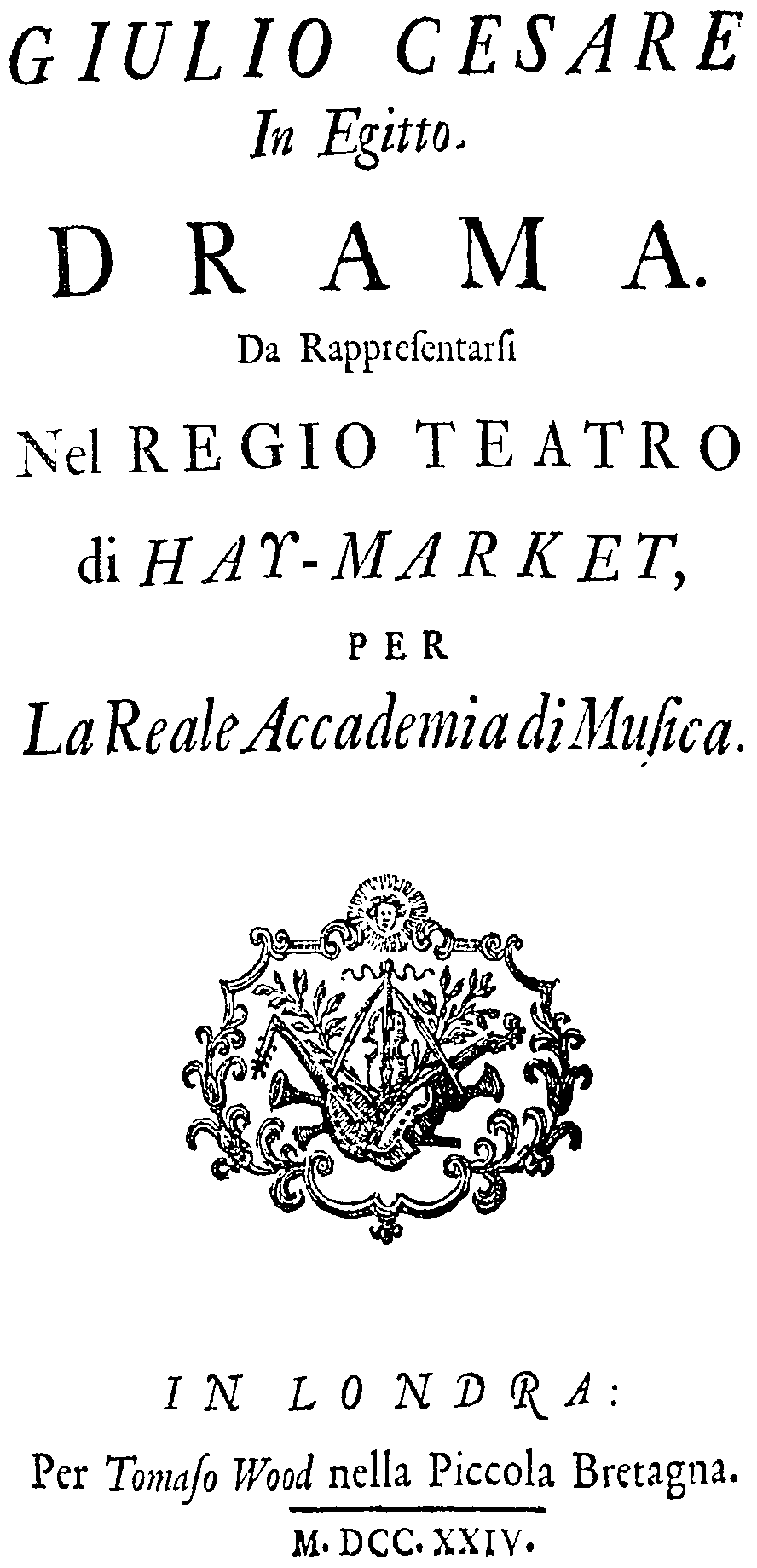 Georg Friedrich Händel - Giulio Cesare in Egitto - title page of the libretto - London 1724